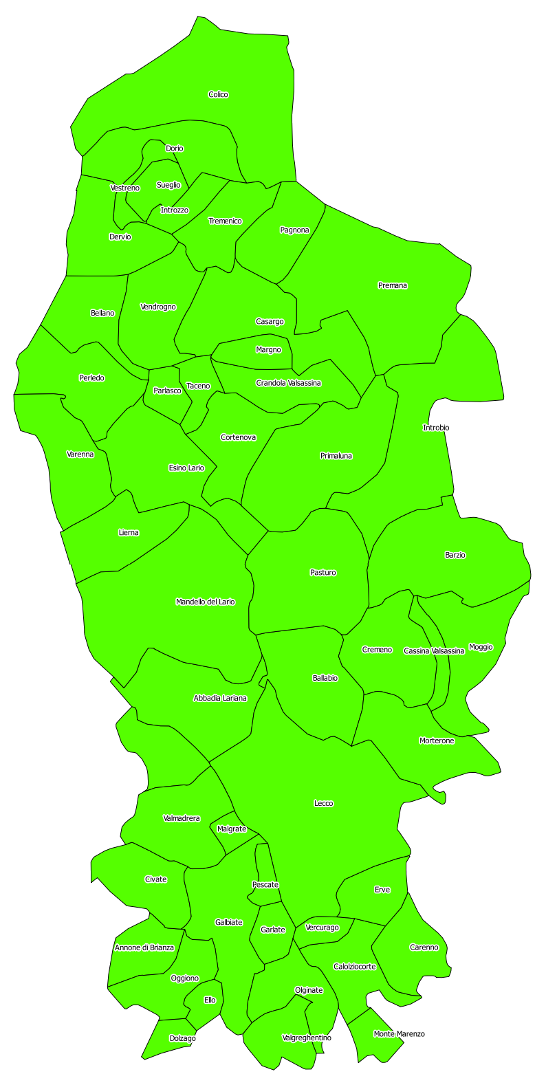 made with qgis